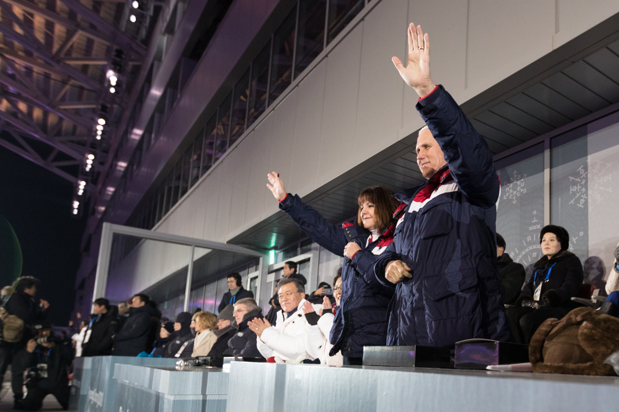 Vice President Mike Pence and Mrs. Karen Pence attend the 2018 Winter Olympics Opening Ceremony at the Pyeongchang Olympic Stadium, Friday, February 9, 2018, in Pyeongchang, South Korea. (Official White House Photo by D. Myles Cullen)